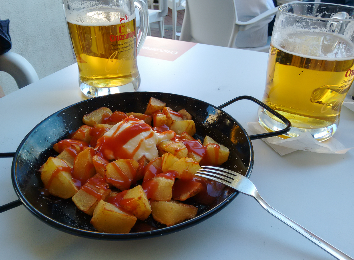 Cabanyal, Valencia.